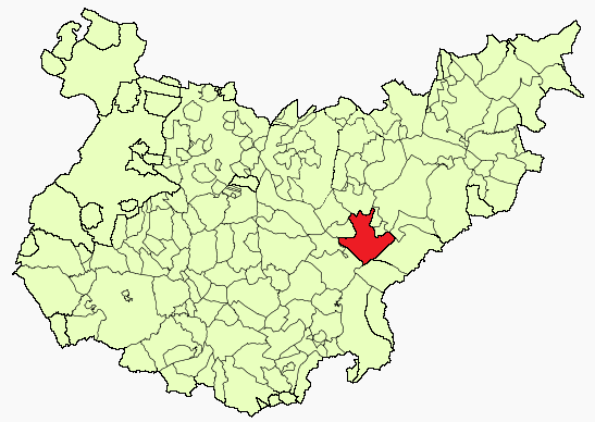 Zalamea de la Serena